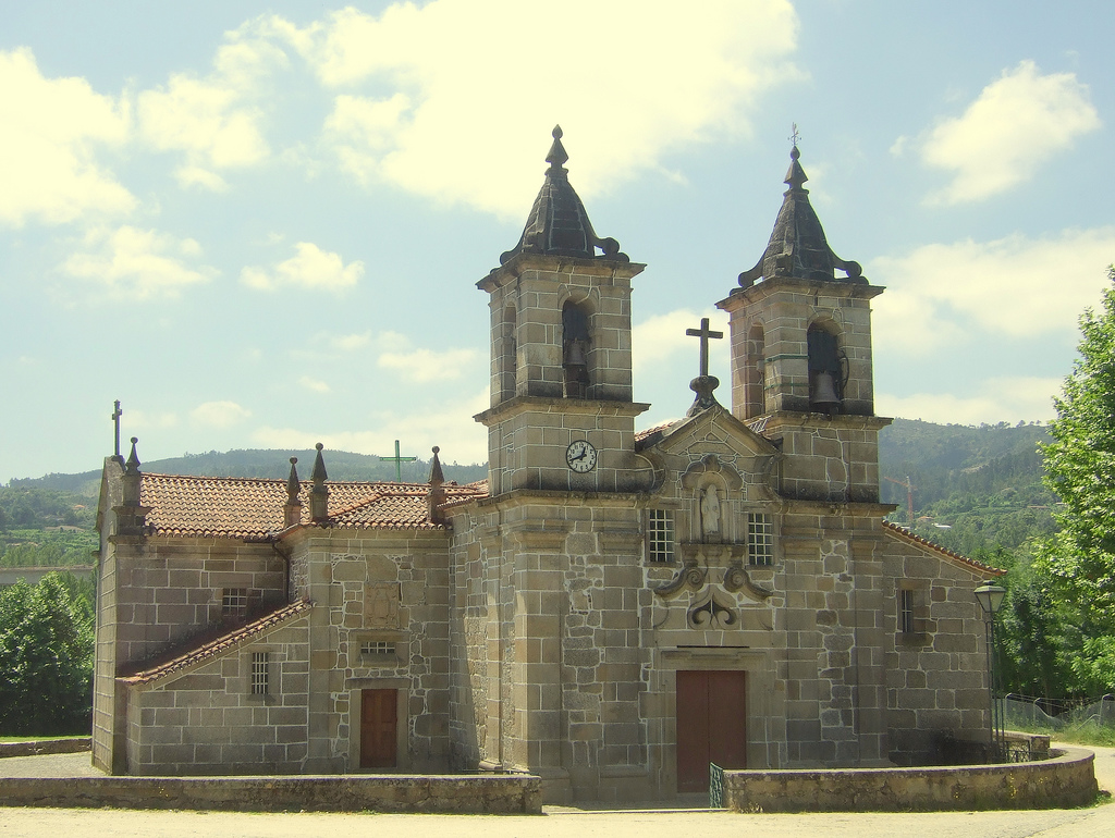 Santa Senhorinha church, at Basto, Braga district, Portugal